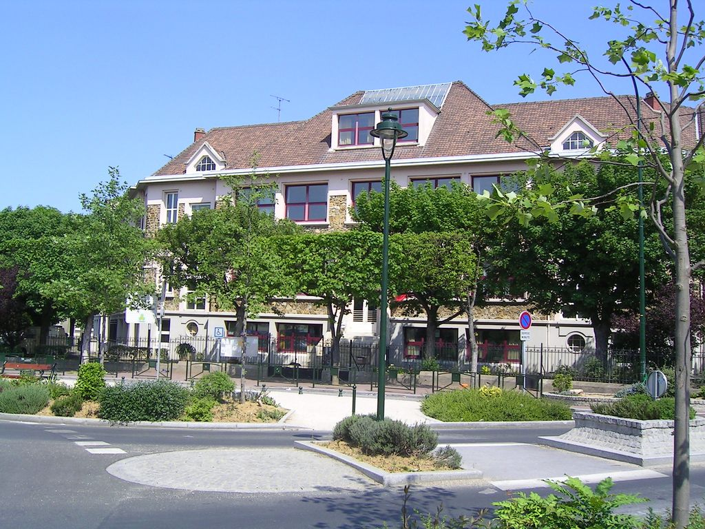 Collège Jean-Baptiste Corot Photo personnelle (own work) de Marianna